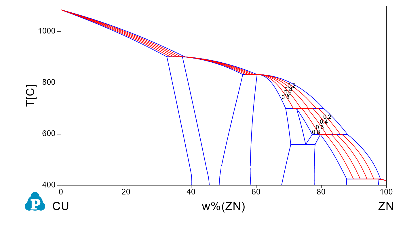 Different levels of solid fractions using the lever rule, Cu-Zn phase diagram